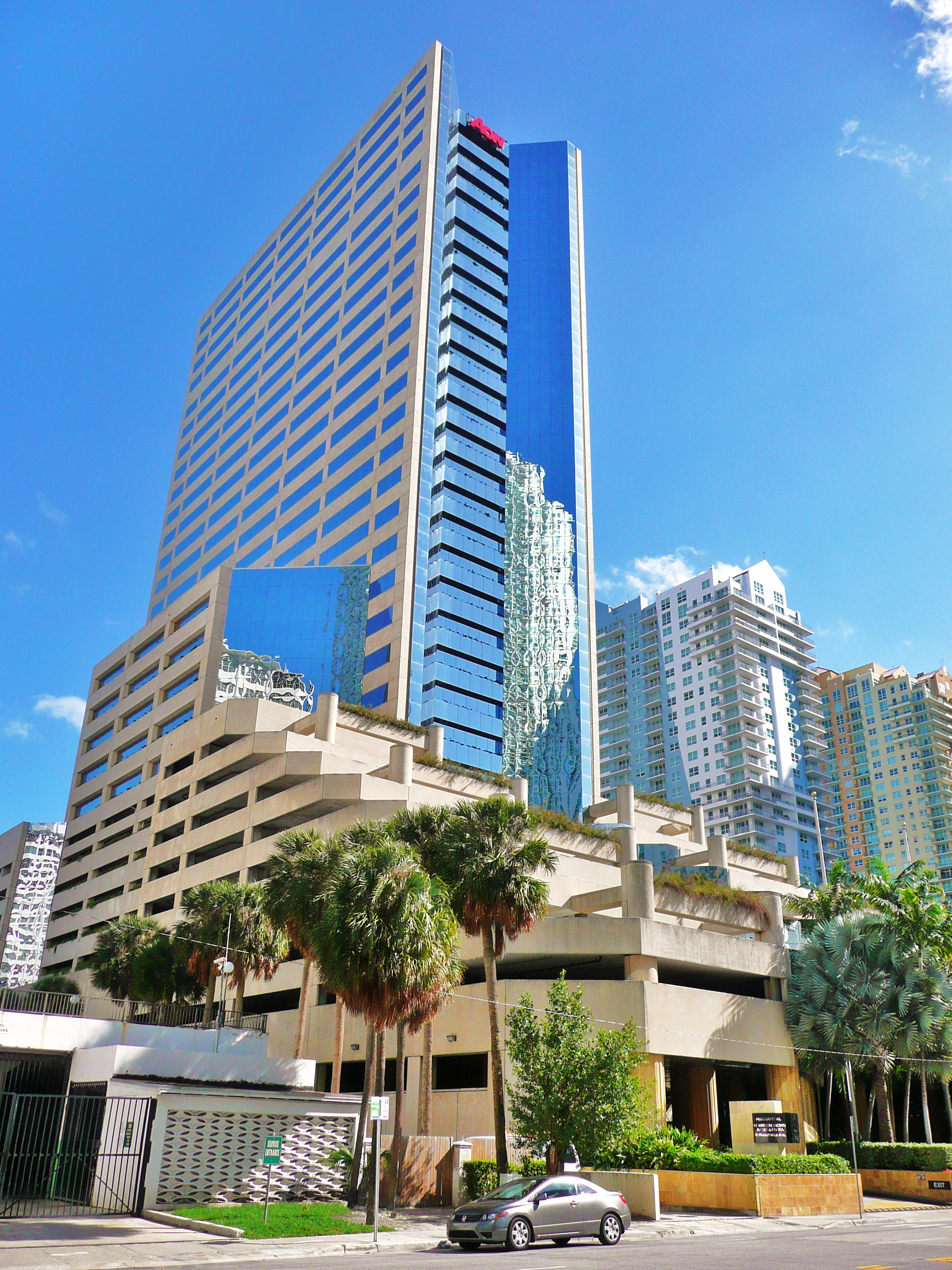 Digital photo taken by Marc Averette. Aon corporation in Downtown Miami, Florida, United States.